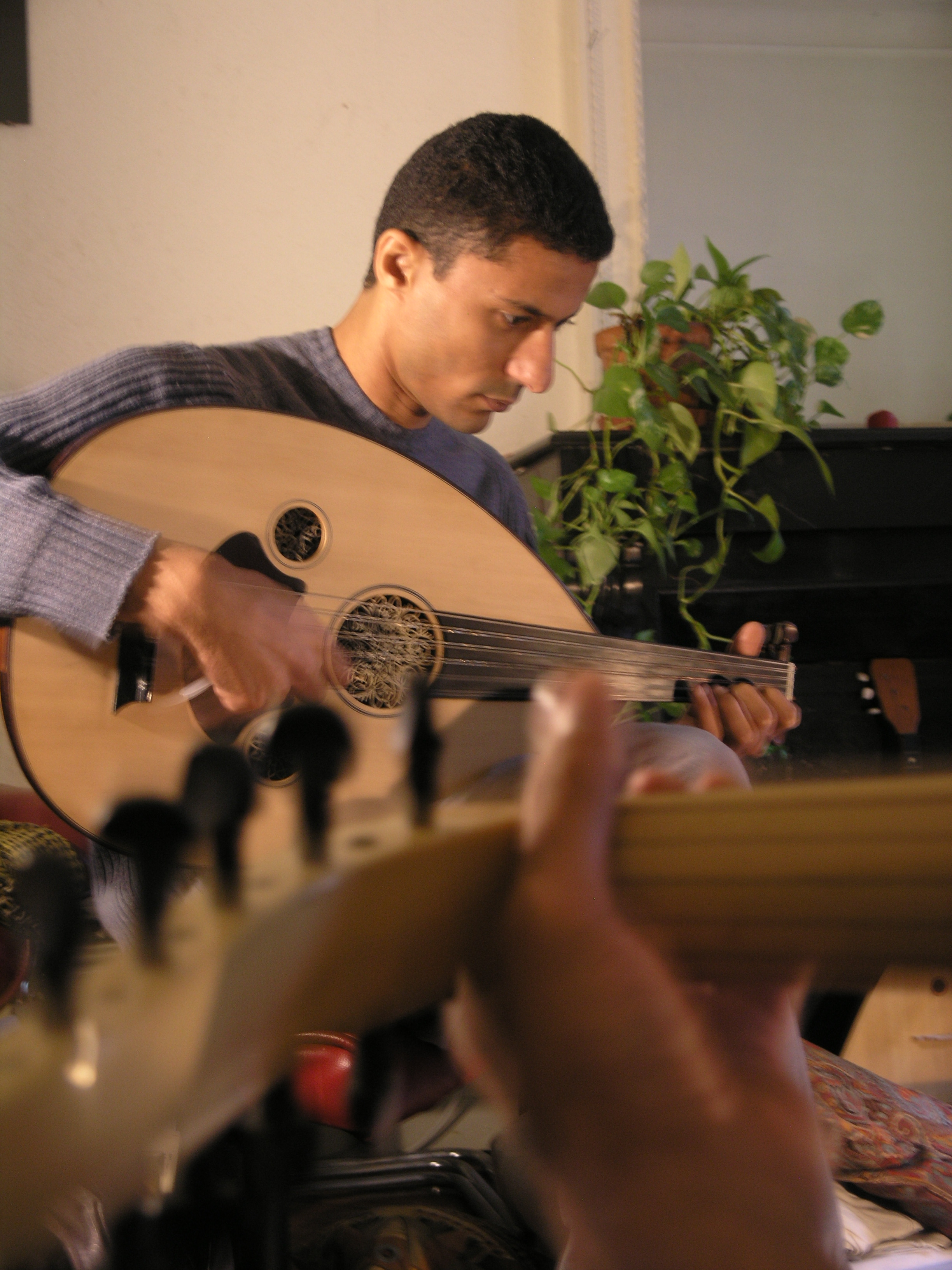 Tarek Abdallah improvising with Nehad El Sayed (hidden) at Pierre Cormon's place in Geneva, Switzerland, 29.6.2006